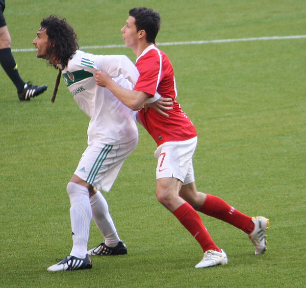 Marek Suchý & Héctor Bracamonte